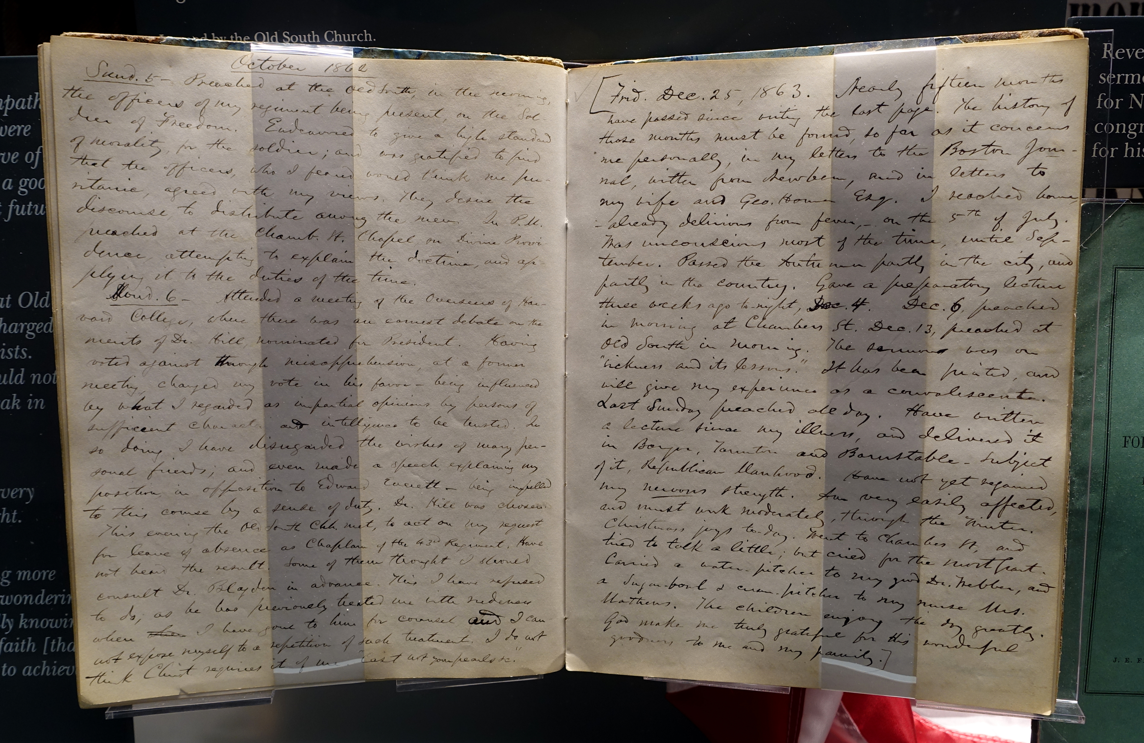 Exhibit in the Old South Meeting House - Boston, Massachusetts, USA.